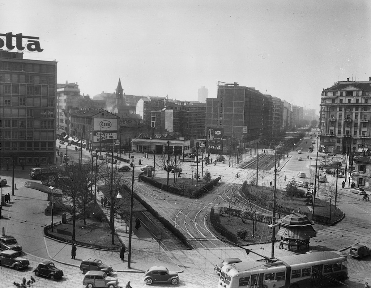 Piazzale Loreto, Milan in 1948